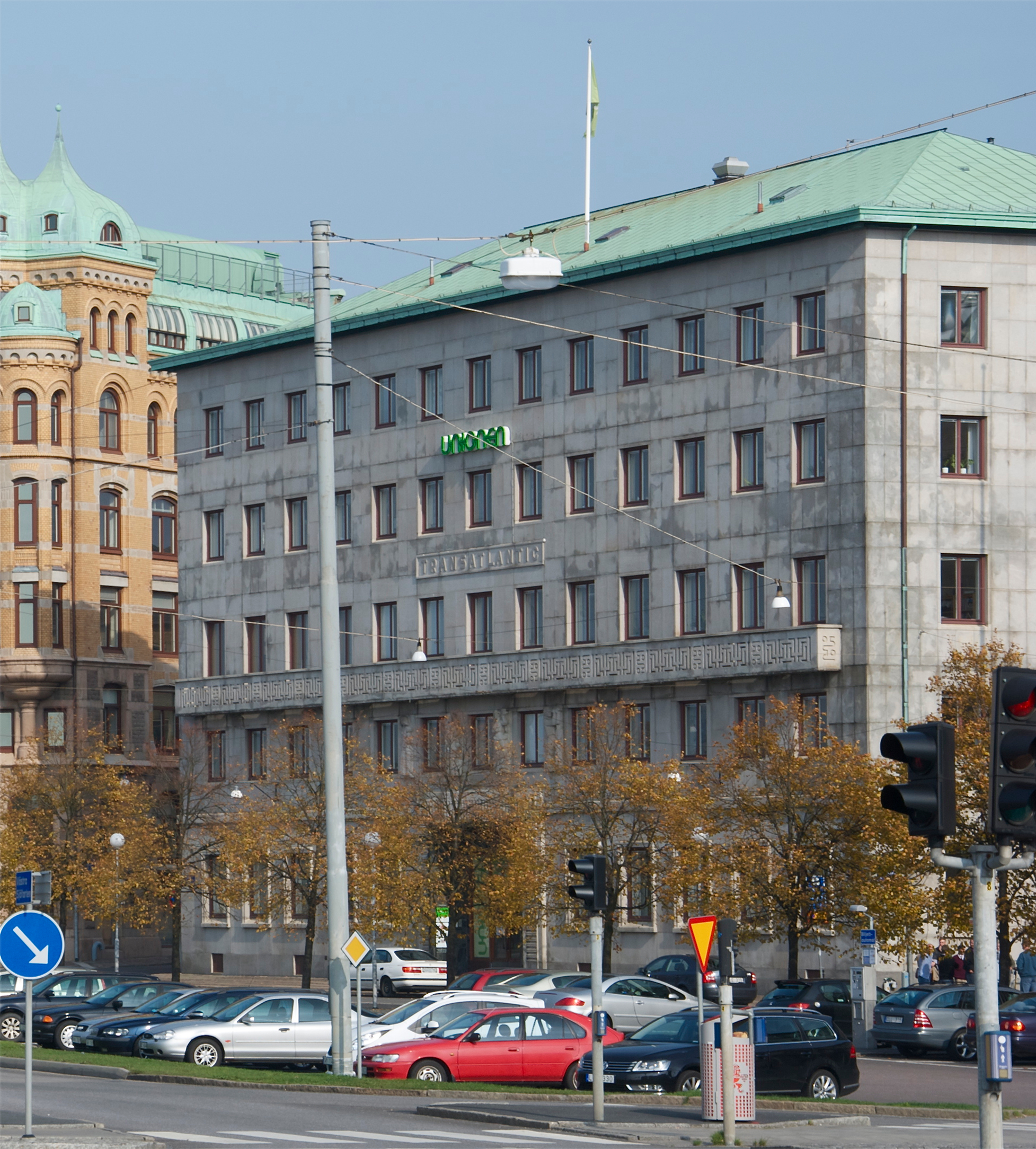 Packhusplatsen square 3 (former office of Rederi Transatlantic). Gothenburg, Sweden.